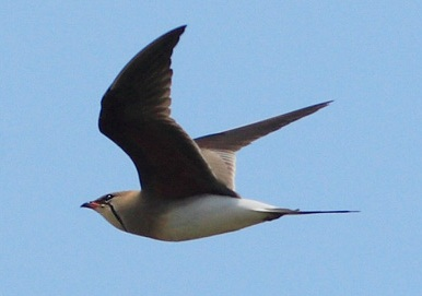 Adult collared pratincole (Glareola pratincola) photographed in Lesbos, Greece.